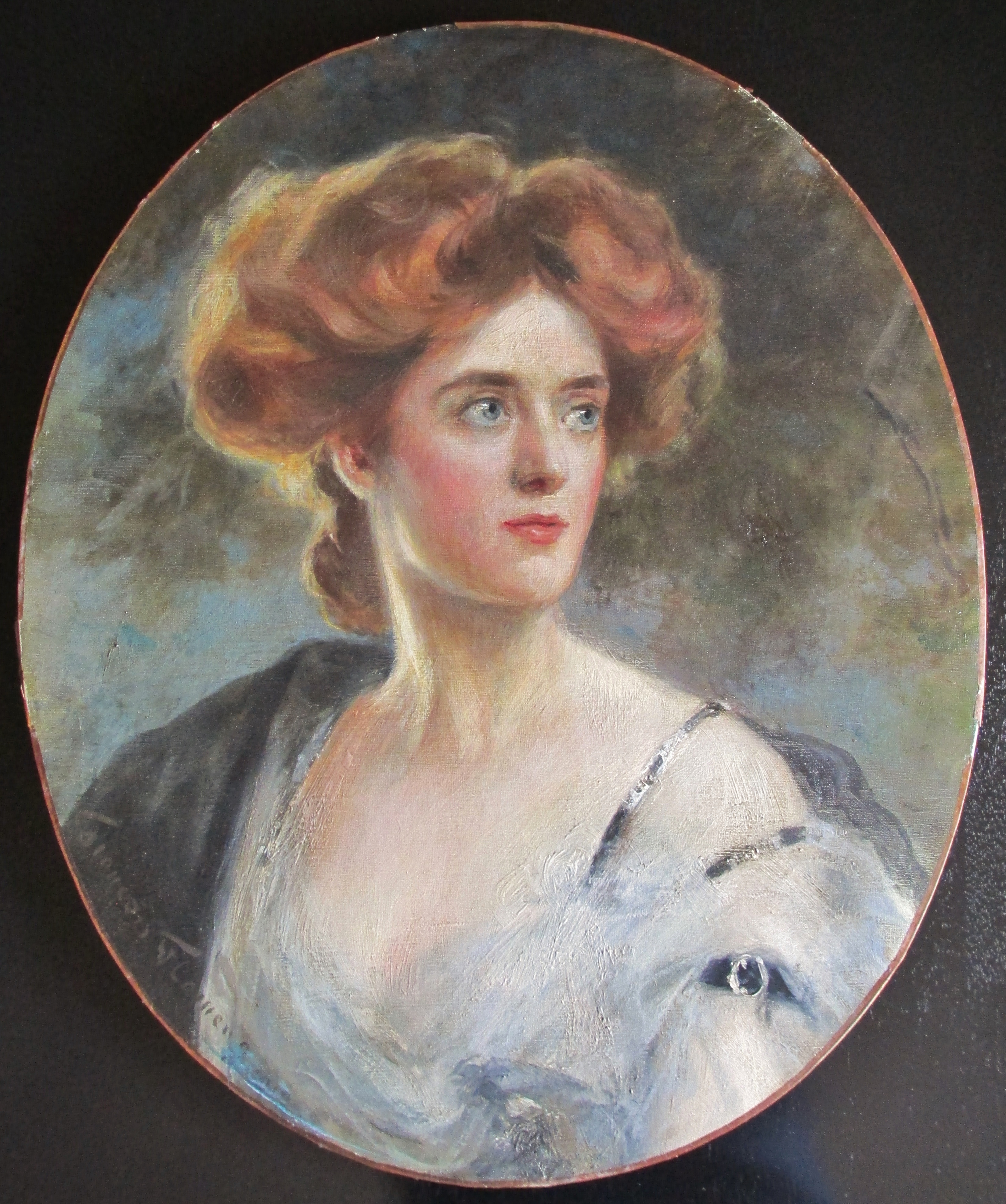 Second wife of Charles Stewart Carstairs.